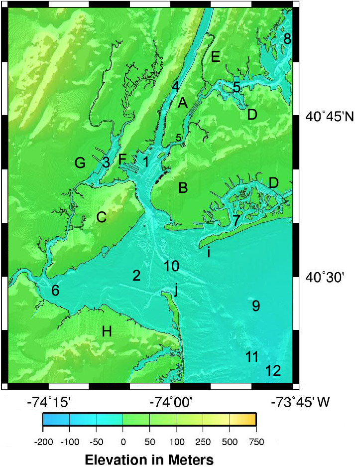 NGDC Coastal Relief Model Vol. 01 Shaded Relief Images US North East Atlantic Coast Grids, National Geophysical Data Center, NOAA. The image is provided with the acknowledgement that it is Not for navigation, and responsible distribution may require this warning.